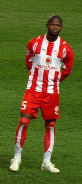 Julio Cesar Santos Correa, Chelsea (3) v (0) Olympiakos